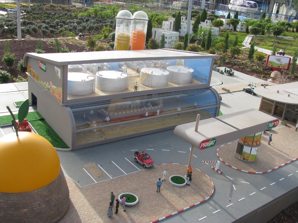 Factory Prigat Kibbutz Givat - chaim